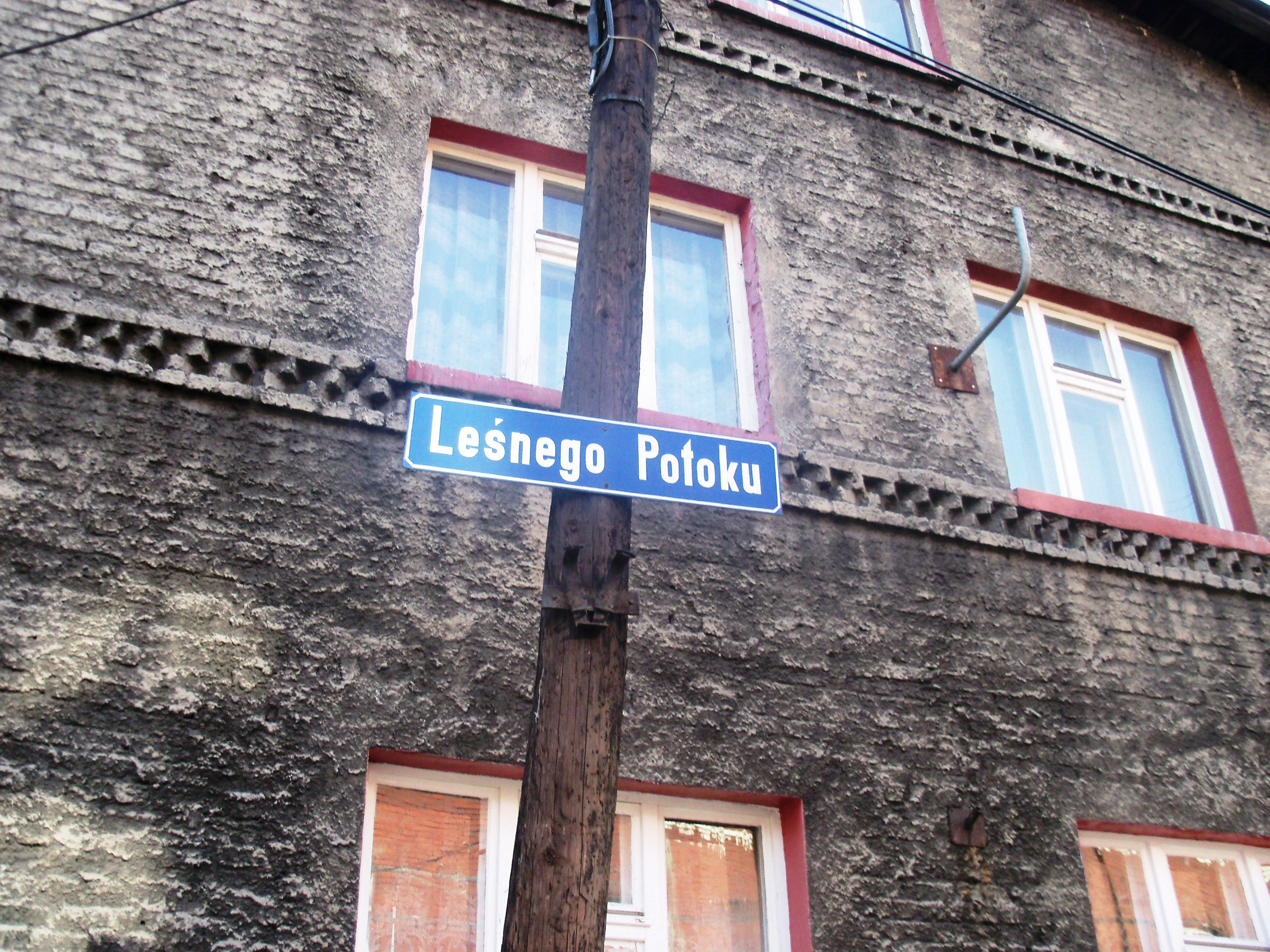 Leśnego Potoku Street in Katowice